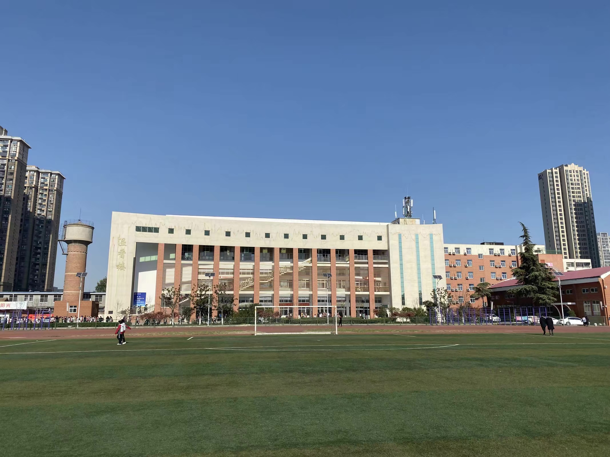 食堂（北校区）